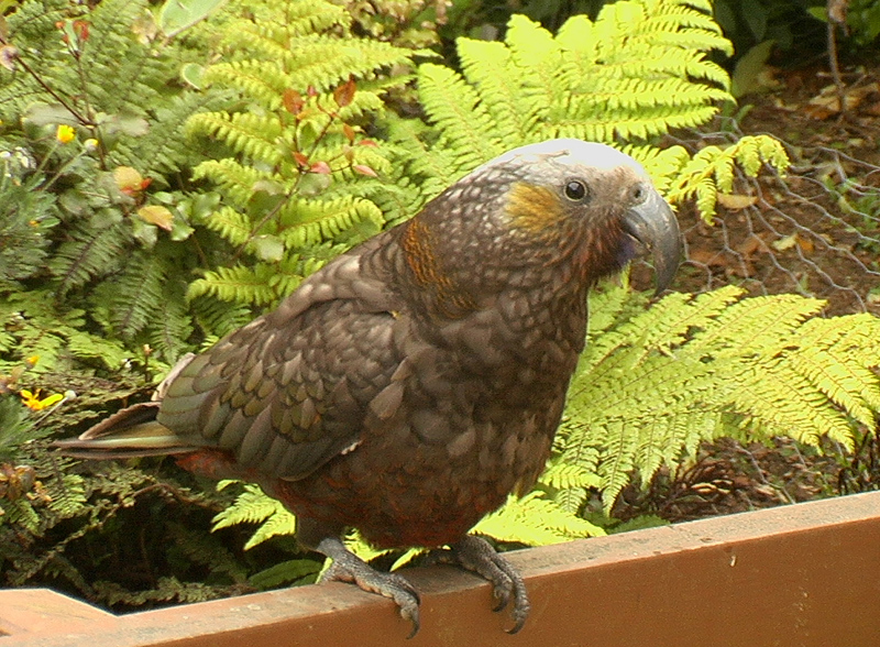 Kaka (Nestor meridionalis) on Stewart Island, New Zealand. Photograph taken on 26 November 2002.